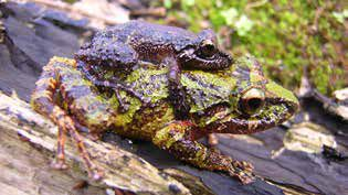 Pristimantis riveroi. Male and female in amplexus. Rancho Grande, Henri Pittier National Park, Aragua, Venezuela.